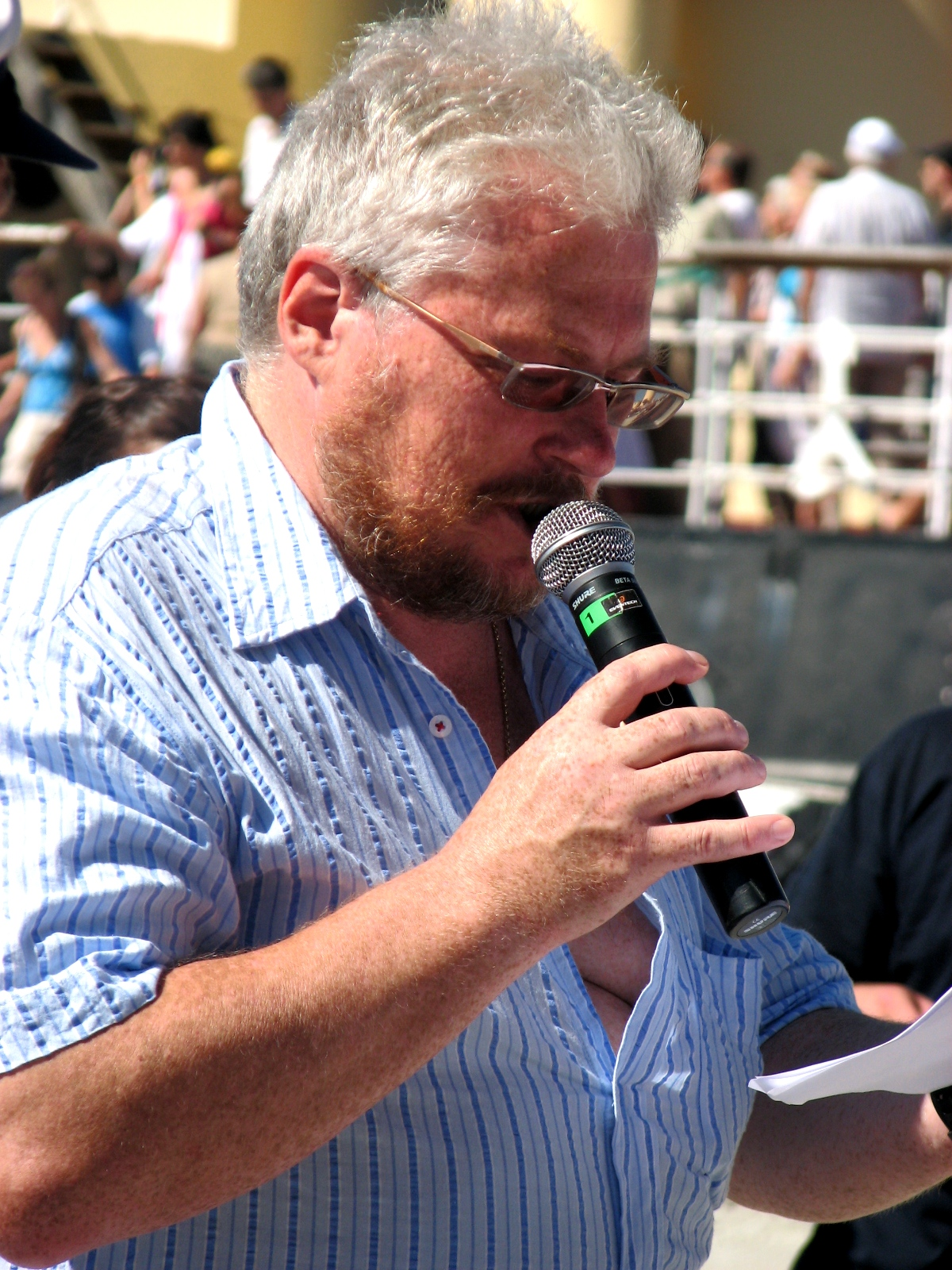 Urmas Dresen performing in Tallinn's Maritime Days